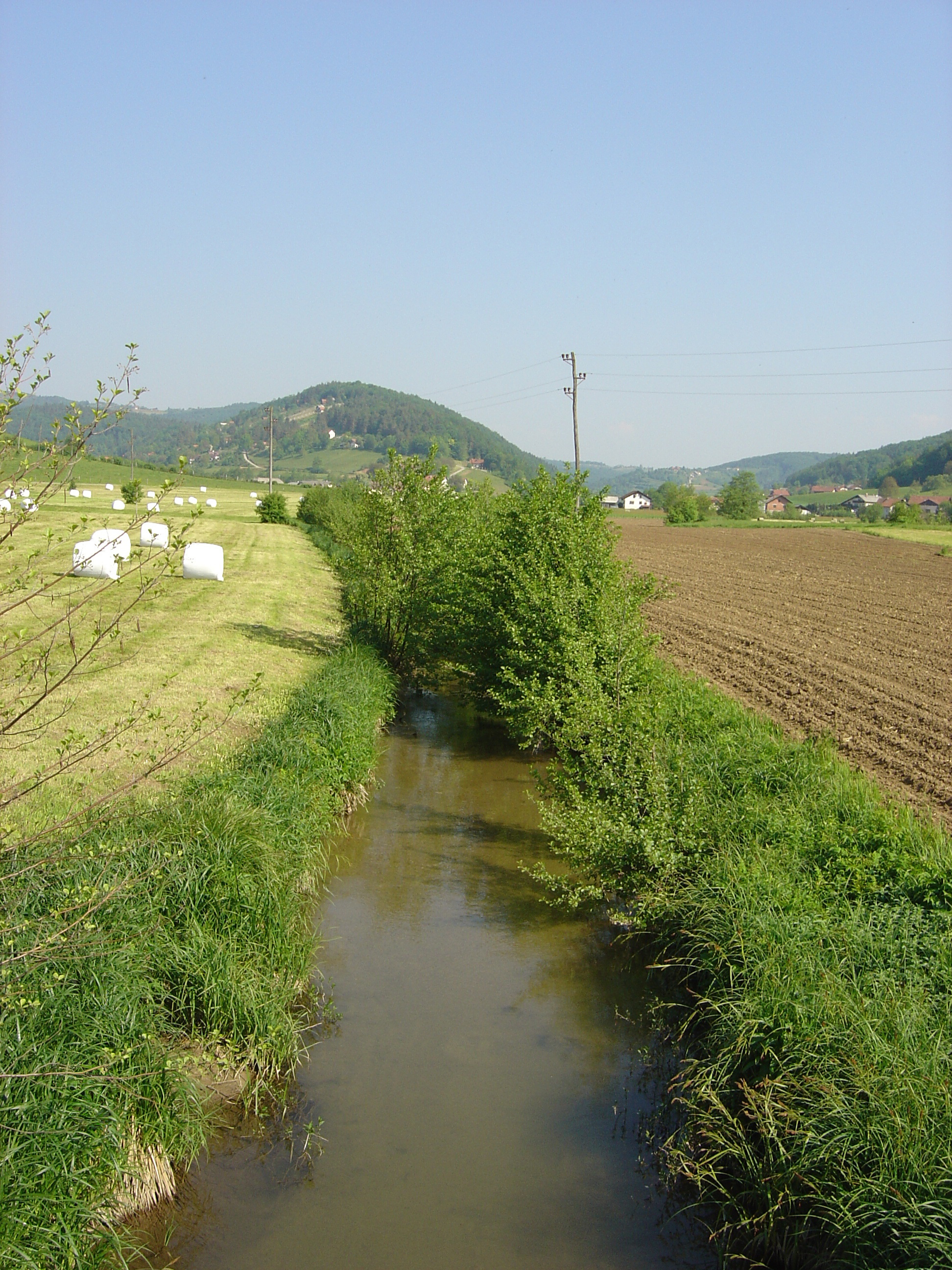 Temenica river making its way through farmland near Temenica village, Slovenia, 2004